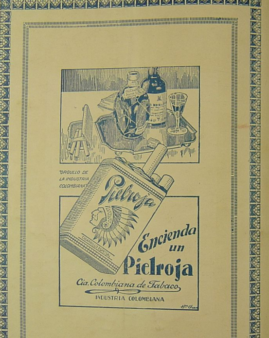 Publicidad1